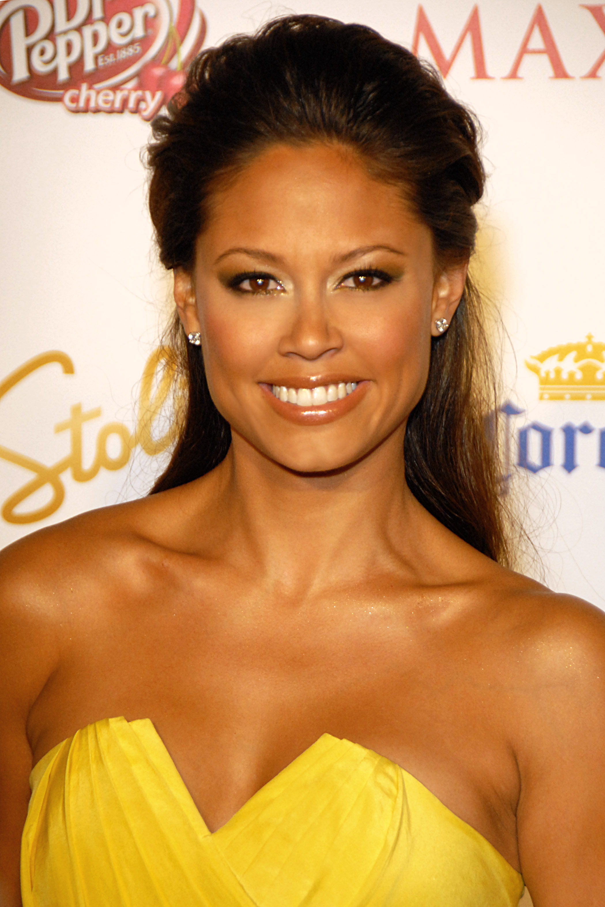 Vanessa Minnillo attending Maxim Magazine's 10th Annual Hot 100 Celebration, Santa Monica, CA on May 13, 2009 - Photo by Glenn Francis of